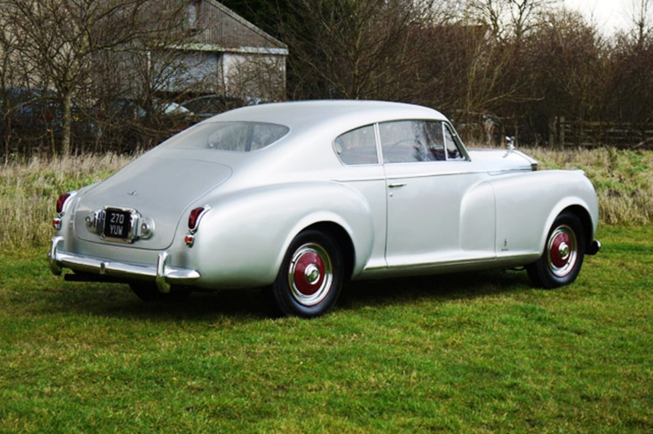 The Rolls Royce Continentals were launched on the Phantom 11 40/50 short wheel based cars in nineteen thirty and were the ultimate sports versions of the marque produced. A one off was produced by Pininfarina in 1950 but the cost was prohibitively high due in part to the Lira fluctuating and Pininfarina signing a deal with Enzo Ferrari to design and produce bodies for the marque. It was decided to concentrate then sporting designs on the Bentley marque and the result was the Bentley R type continental which was offered at half the price of the Rolls Royce Continental and was a success with over 500 versions produced. The Rolls Royce coupe is unique and is wasnt until 2013 that Rolls Royce manufactured another, the Wraith is a wonderful car and the quickest Rolld Royce ever manufactured with traces of the Maestros nineteen fifties design still evident